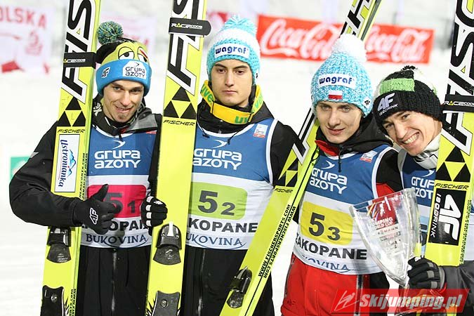 Polish team during team competition of FIS Ski Jumping World Cup in Zakopane, 2013 From left: Piotr Żyła, Maciej Kot, Krzysztof Miętus, Kamil Stoch